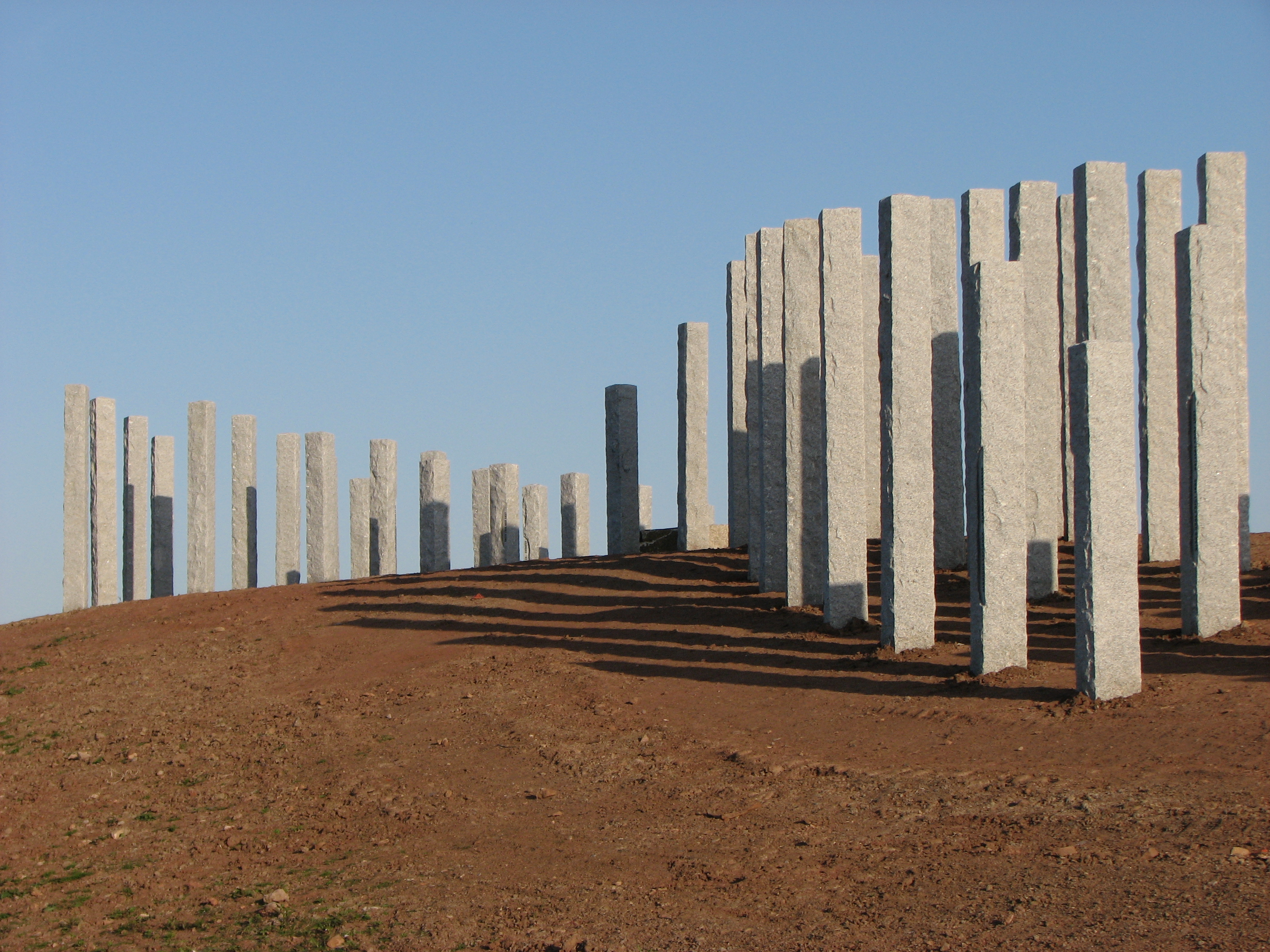 Michael Dan Archer's sculpture Full Fathom Five – Seafarer's Monument (2007–2008) in Portishead, Somerset, England, UK.